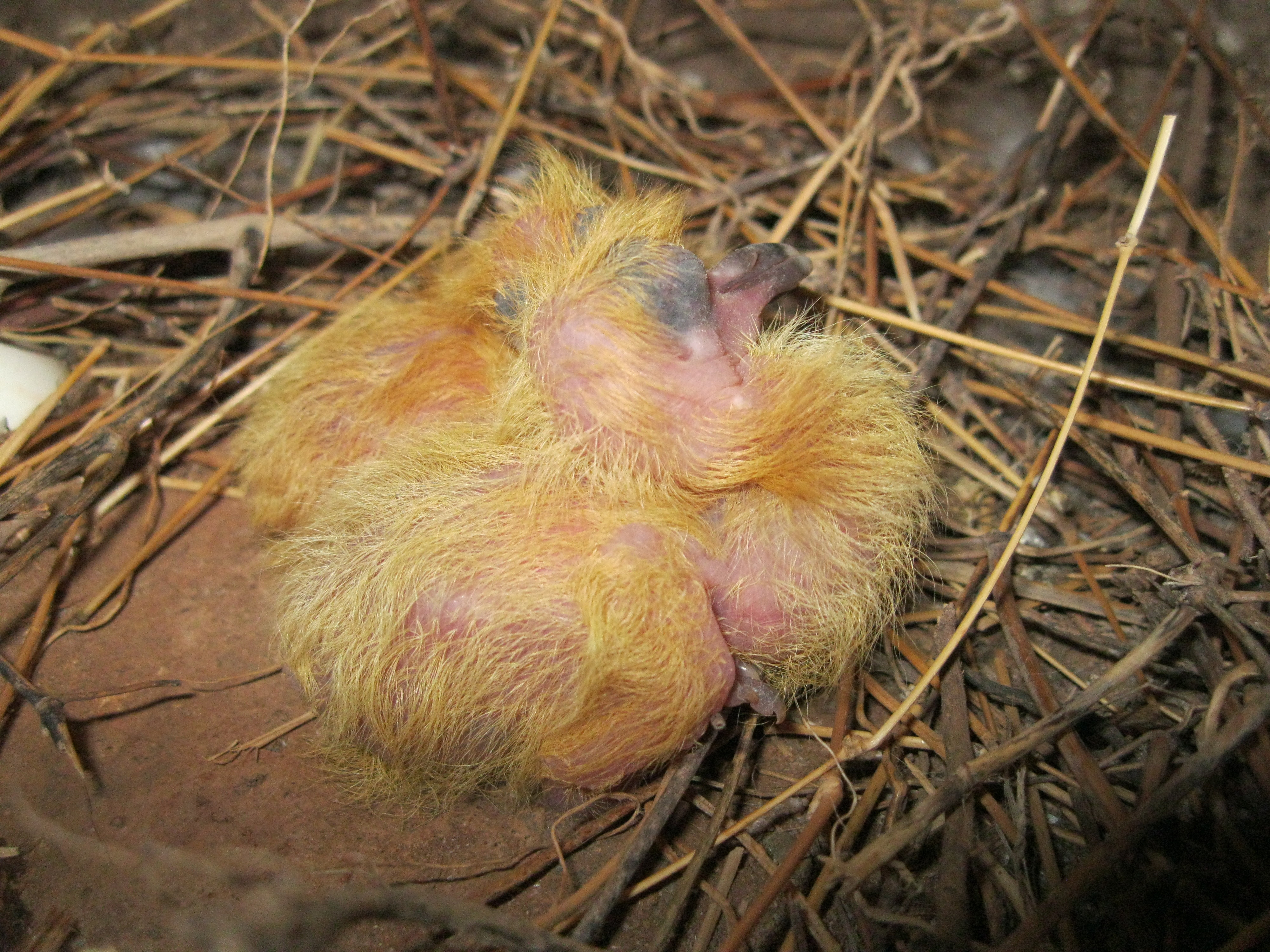 Pigeon kid